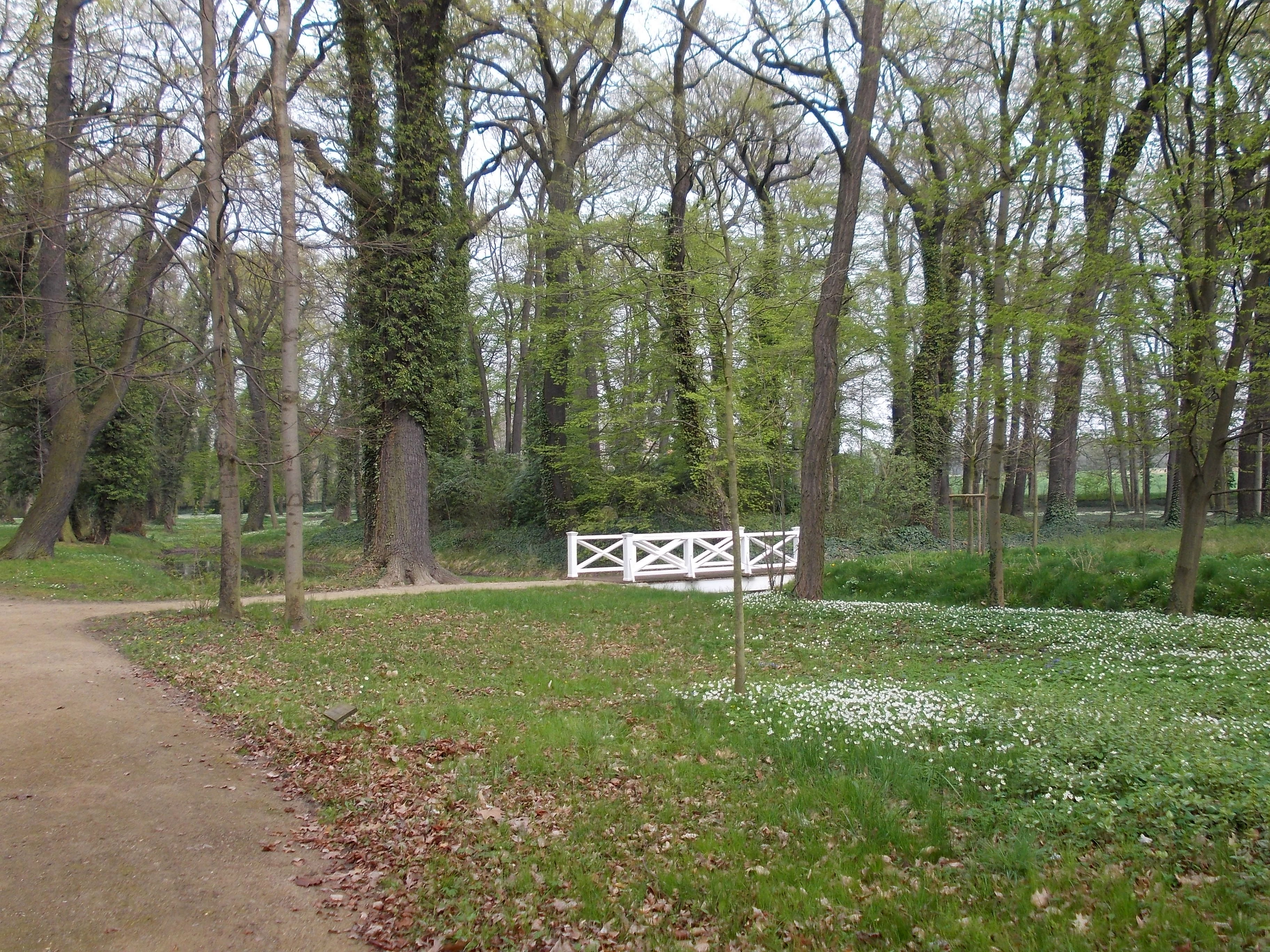 Gardens of Altjessnitz estate (Raguhn-Jessnitz, Anhalt-Bitterfeld district, Saxony-Anhalt)